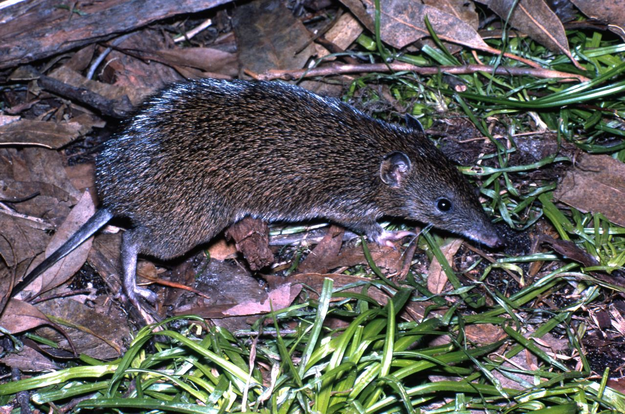 Southern Brown Bandicoot (Isoodon obesulus), female, from Cranbourne, Victoria, Australia.